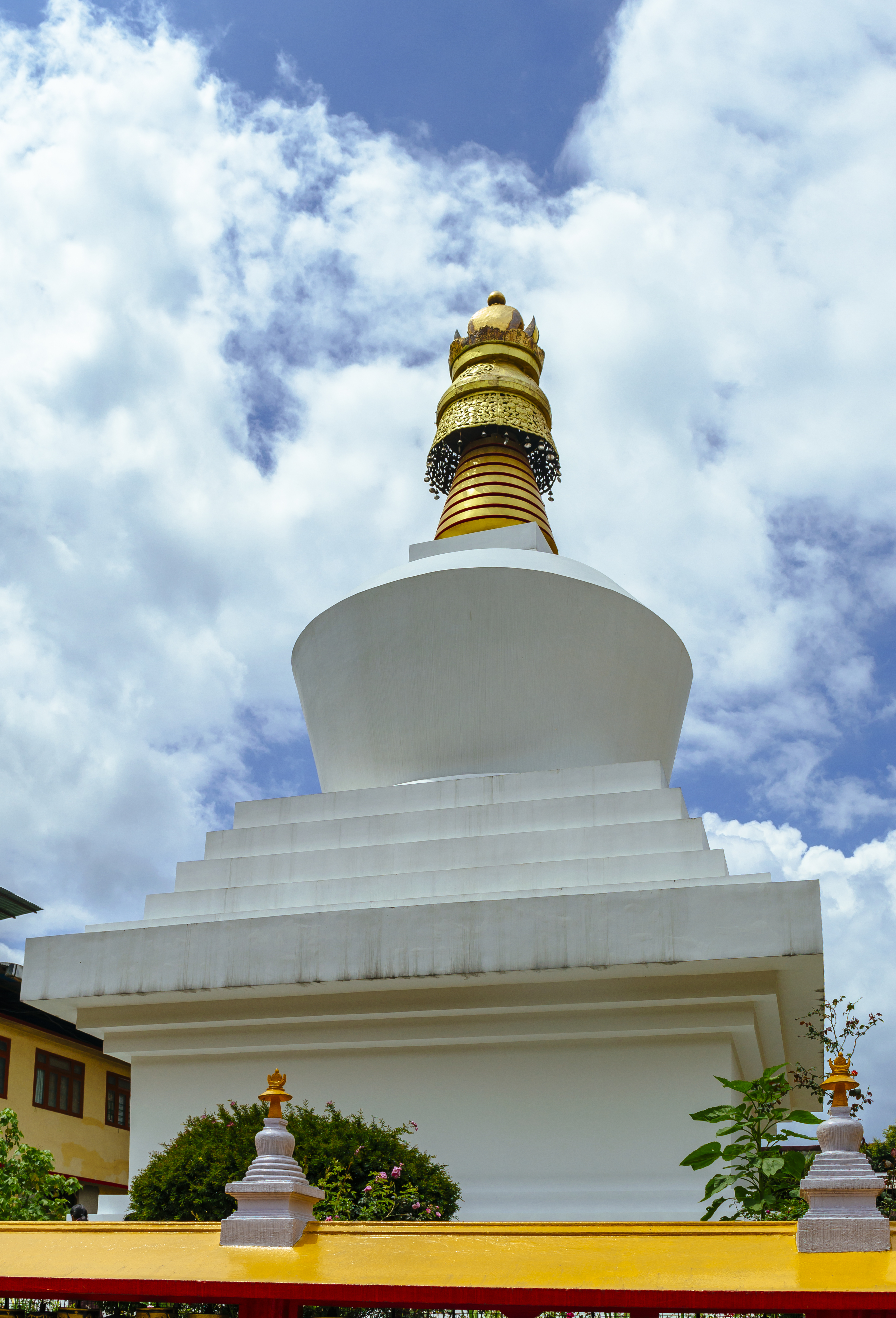 Dro-dul Chorten is a stupa in Gangtok in the Indian state of Sikkim. The stupa was built by Trulshik Rinpoche, head of the Nyingma order of Tibetan Buddhism in 1945. Inside this stupa, a complete set of Dorjee Phurba, Kangyur relics (Holy Books) and other religious objects. Around the stupa are 108 Mani Lhakor or prayer wheels. The stupa is surrounded by Chorten Lakahang and Guru Lakhang, where two statues of Guru Rinpoche are present.